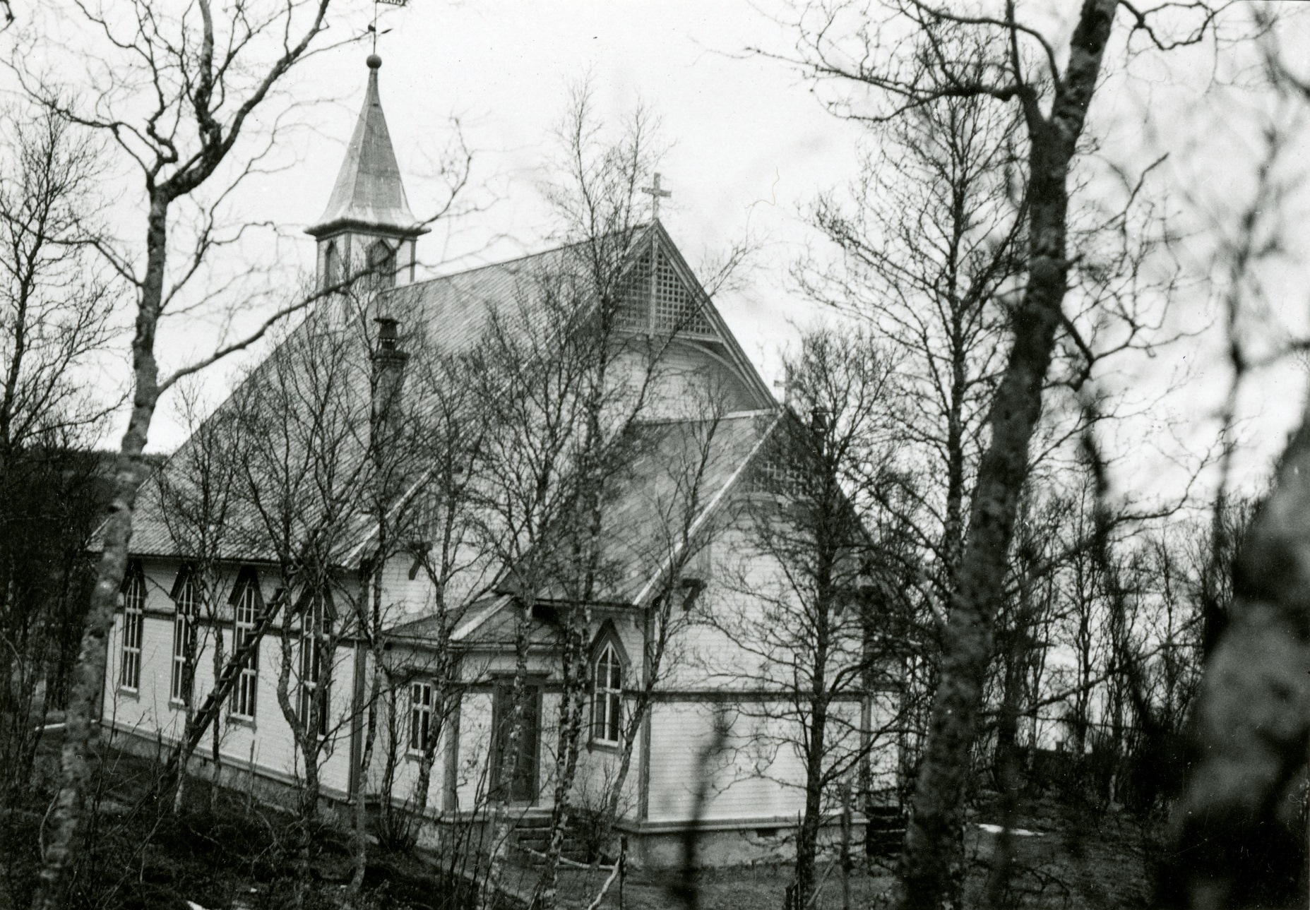 Tovik kirke. Foto: Alfred Hagn, fra Kulturminnebilder.no.